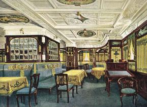 First Class Reading and Writing room of the SS Kronprinz Wilhelm